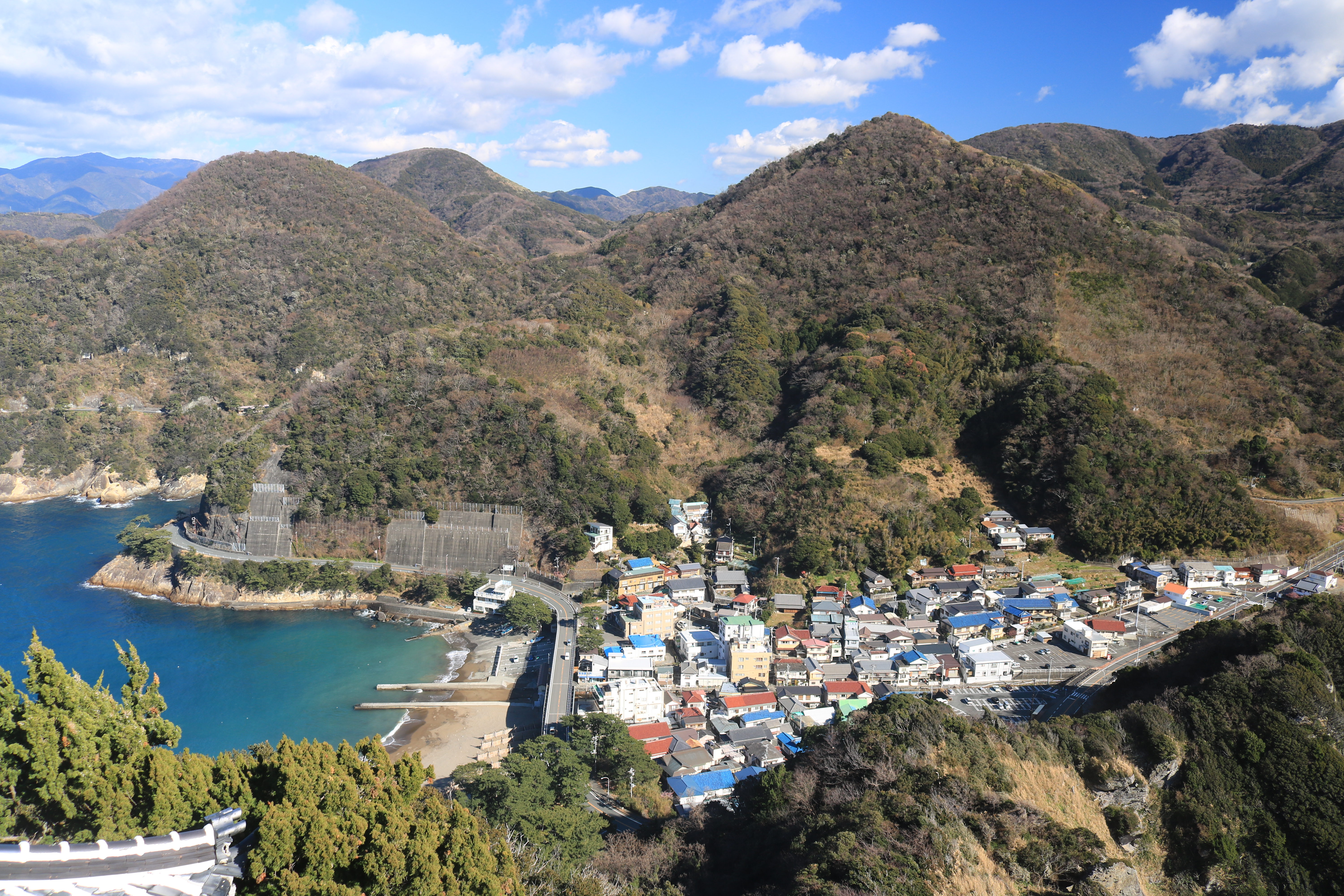 Kumomi Onsen seen and Route 136 from Mount Eboshi in Matsuzaki, Shizuoka Prefecture, Japan.